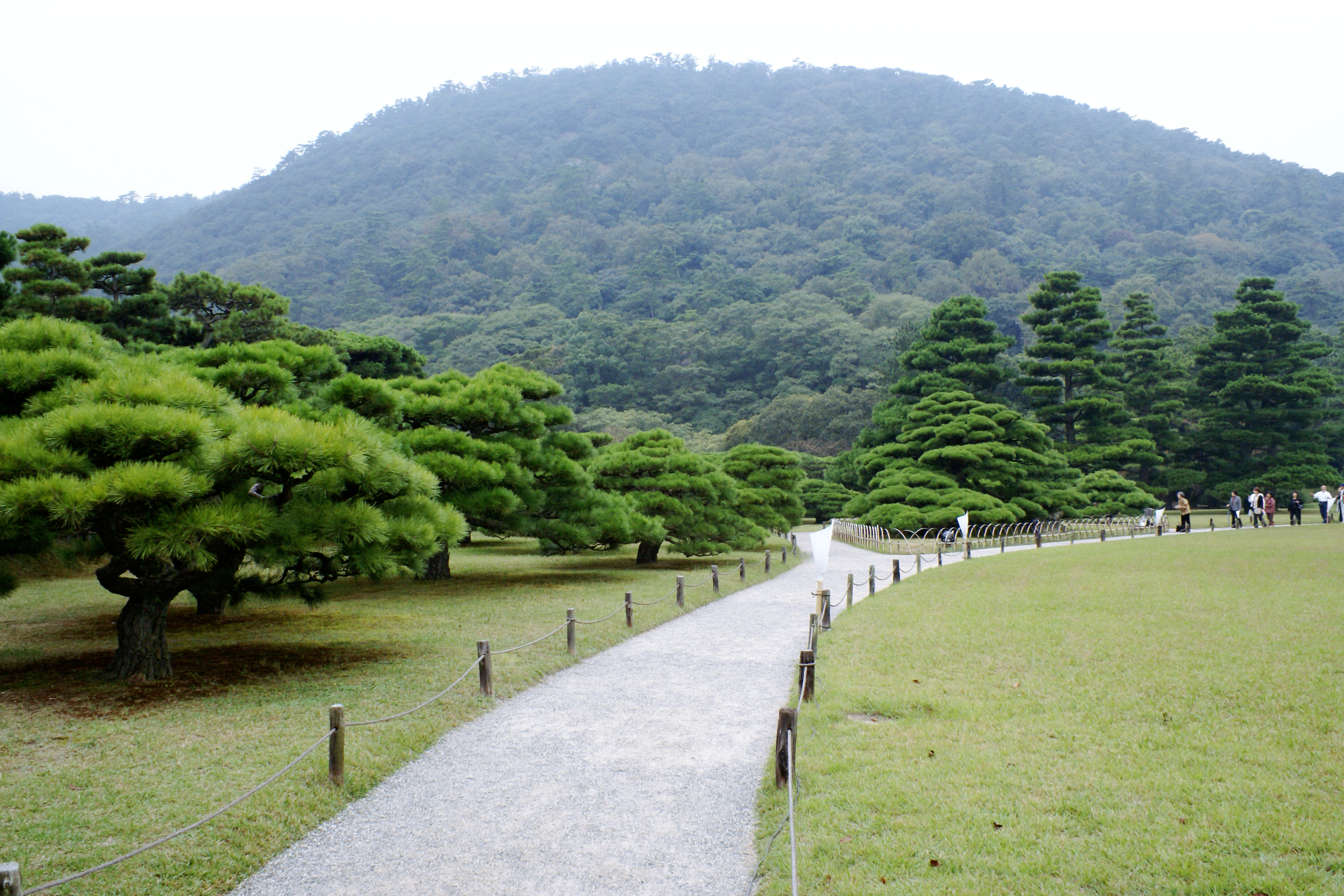 Ritsurin Garden in Takamatsu, Kagawa Prefecture, Japan